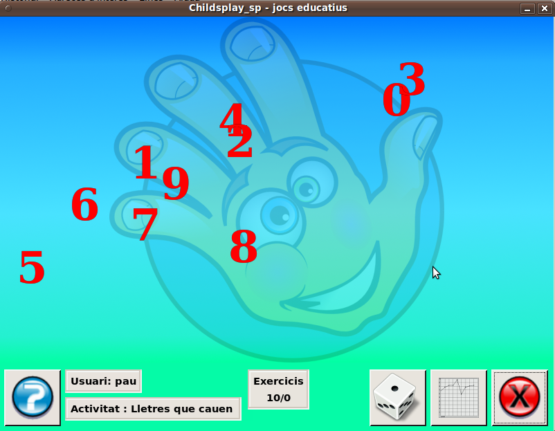 Childsplay in Catalan. Ubuntu Karmic. Activity.